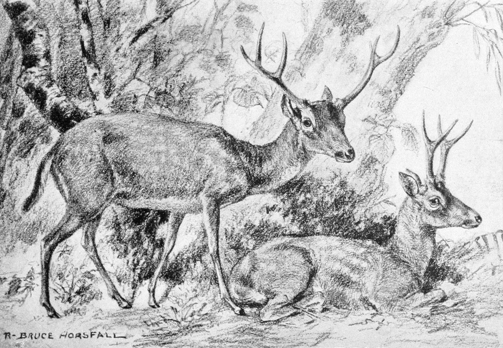 Life restoration of Ramoceros osborni and Cosoryx furcatus (both formerly in the genus Merycodus), from W.B. Scott's A History of Land Mammals in the Western Hemisphere. New York: The Macmillan Company.